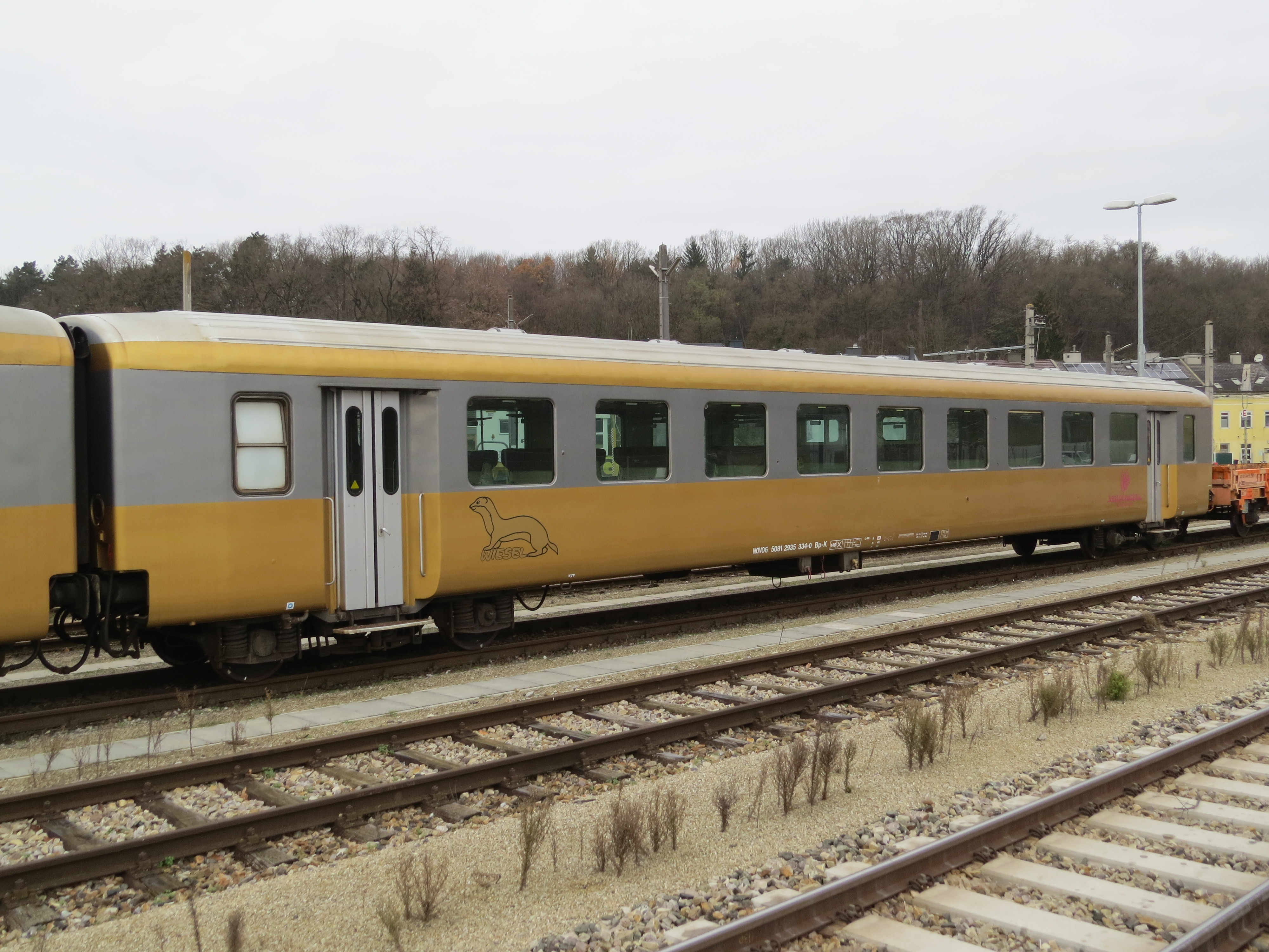 NÖVOG 5081 29-35 334-0 at Bahnhof St. Pölten-Kaiserwald